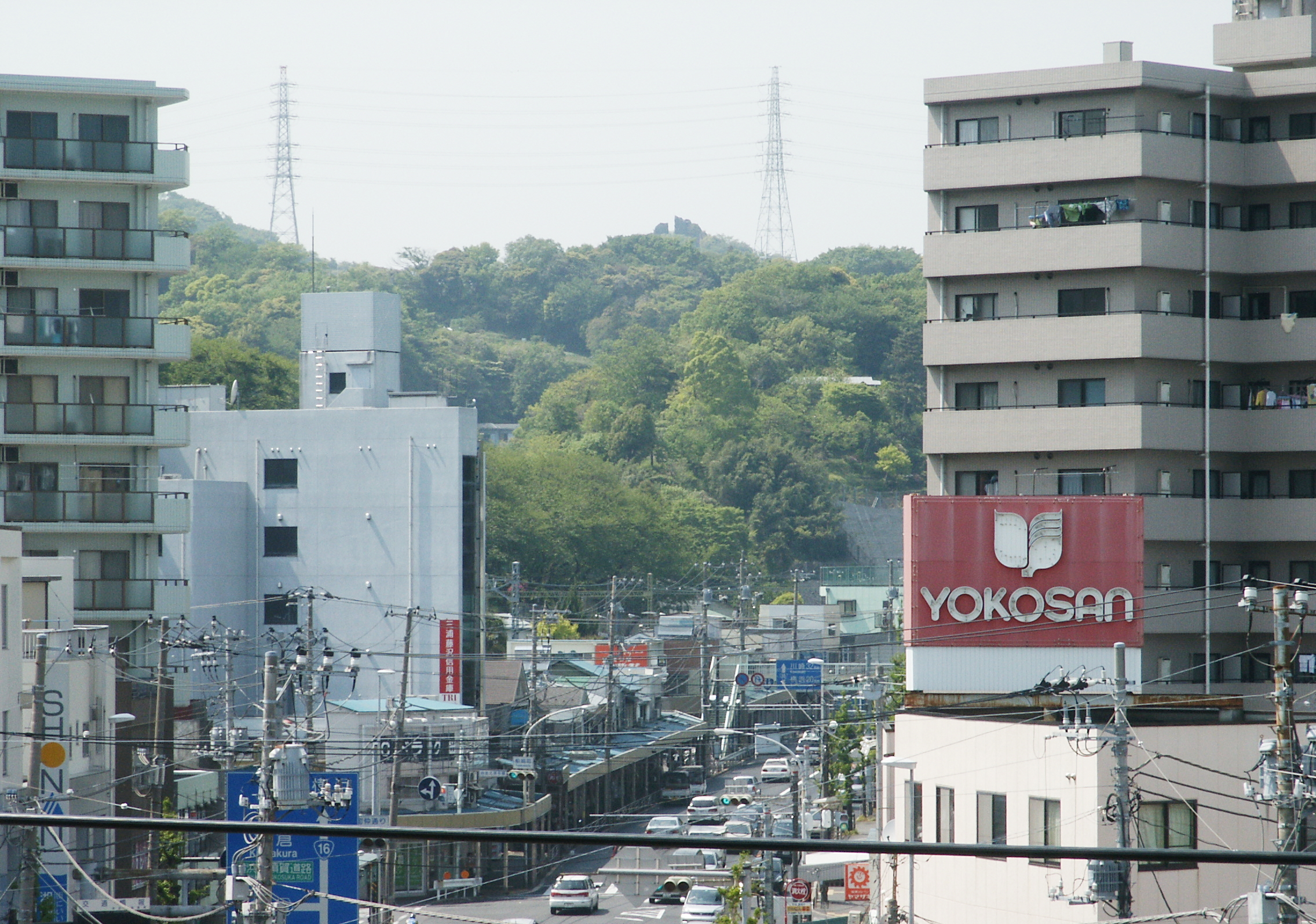 Route 16 adjacent to Keikyu Taura station